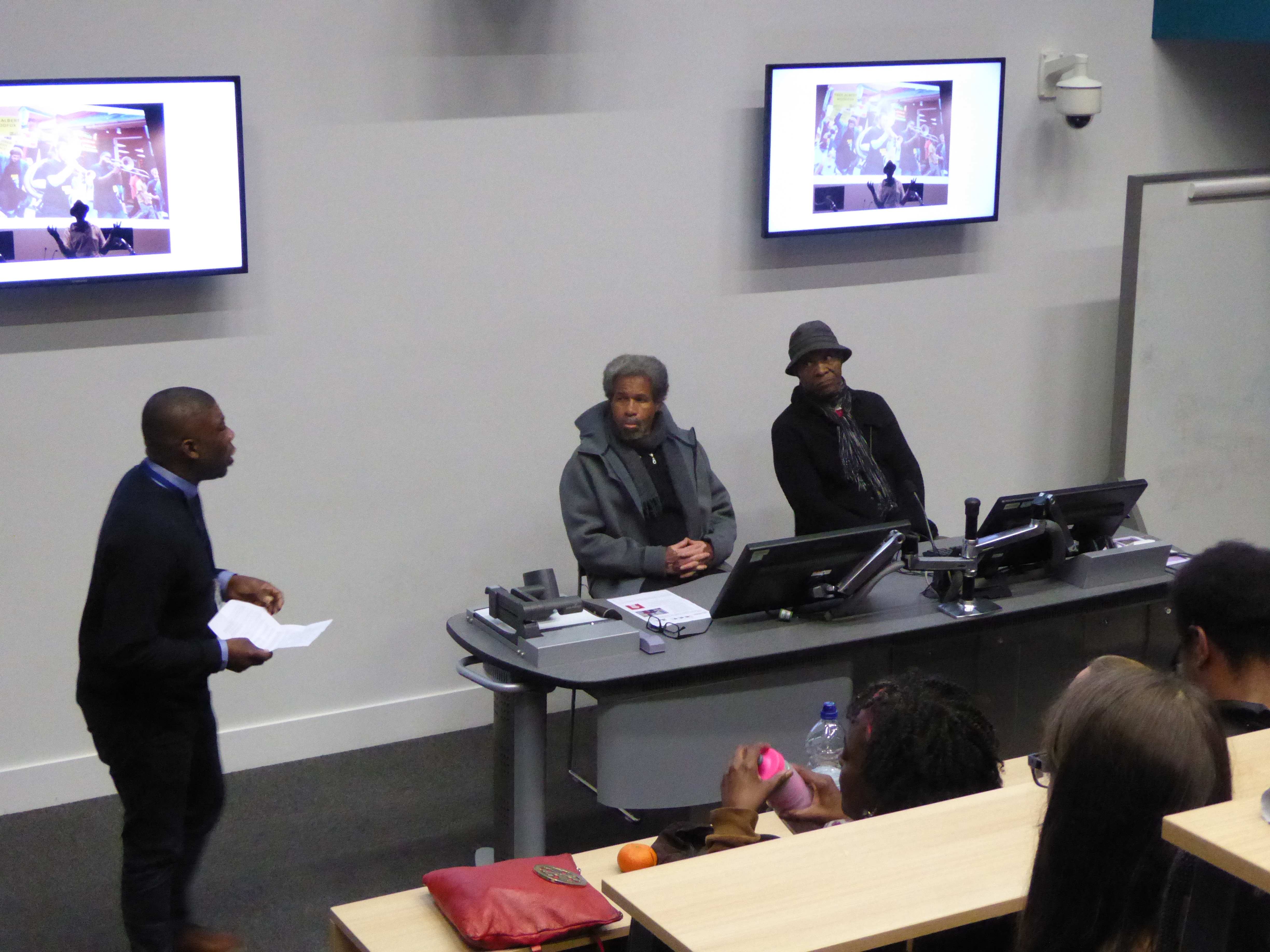 Albert Woodfox & Robert King, Angola Three event, Brooks Building, Manchester Metropolitan University, Birley Field, 53 Bonsall Street, Hulme, Manchester, England, November 2016